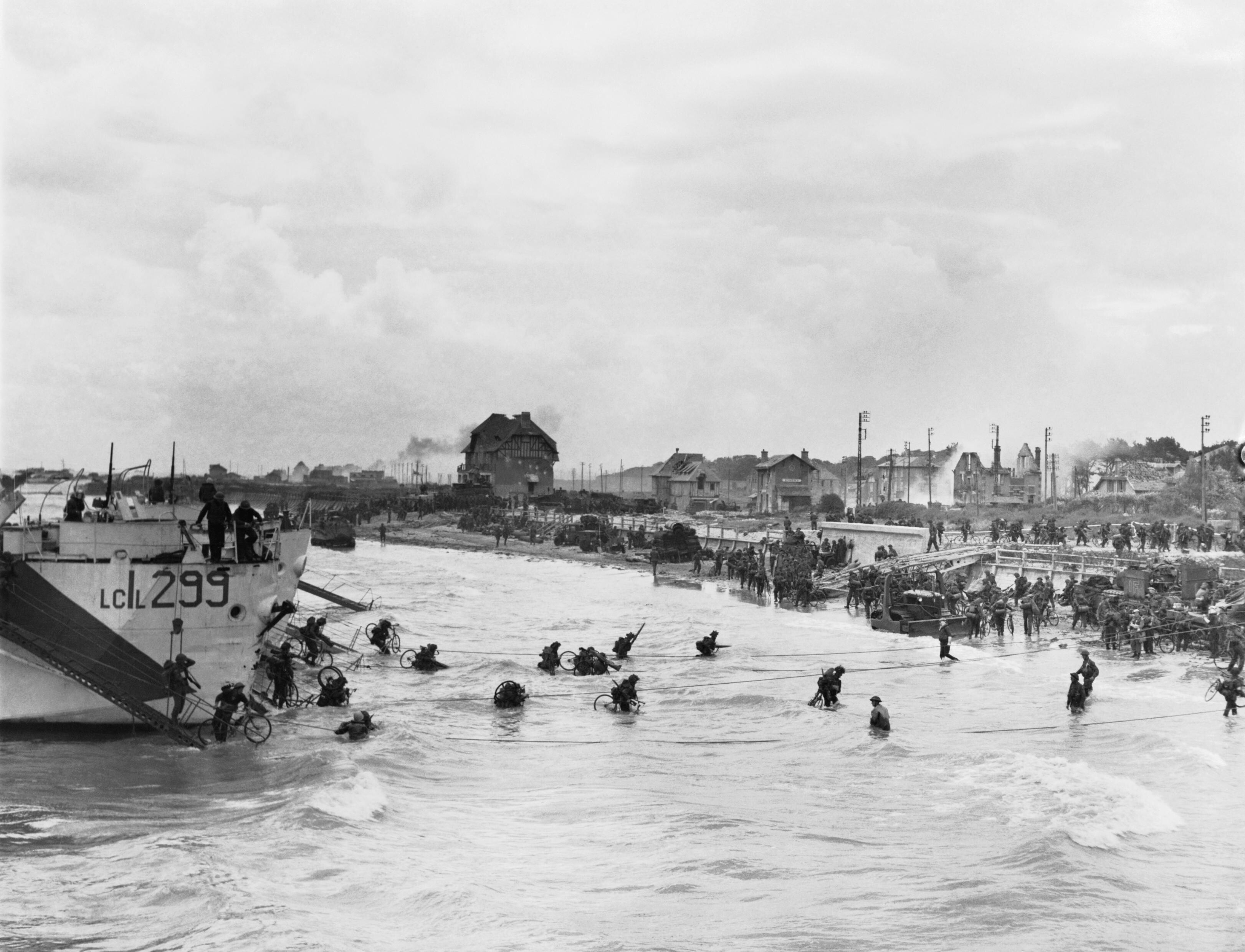 Follow-up waves of the 9th Canadian Infantry Brigade disembarking with bicycles from landing craft onto 'Nan White' sector of Juno Beach at Bernieres-sur-Mer, 6 June 1944. The British 2nd Army: second-wave troops of 9th Canadian Infantry Brigade, probably Highland Light Infantry of Canada, disembarking with bicycles from LCI(L)s (Landing Craft Infantry Large) onto 'Nan White' Beach, JUNO Area at Bernieres-sur-Mer, shortly before midday on 6 June.